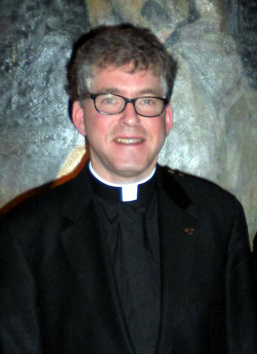 Swedish clergyman and philathropist Rev. Åke Bonnier, as released by image creator Southerly ClubsPlace: Nedre Manilla, Djurgården, Stockholm, Sweden